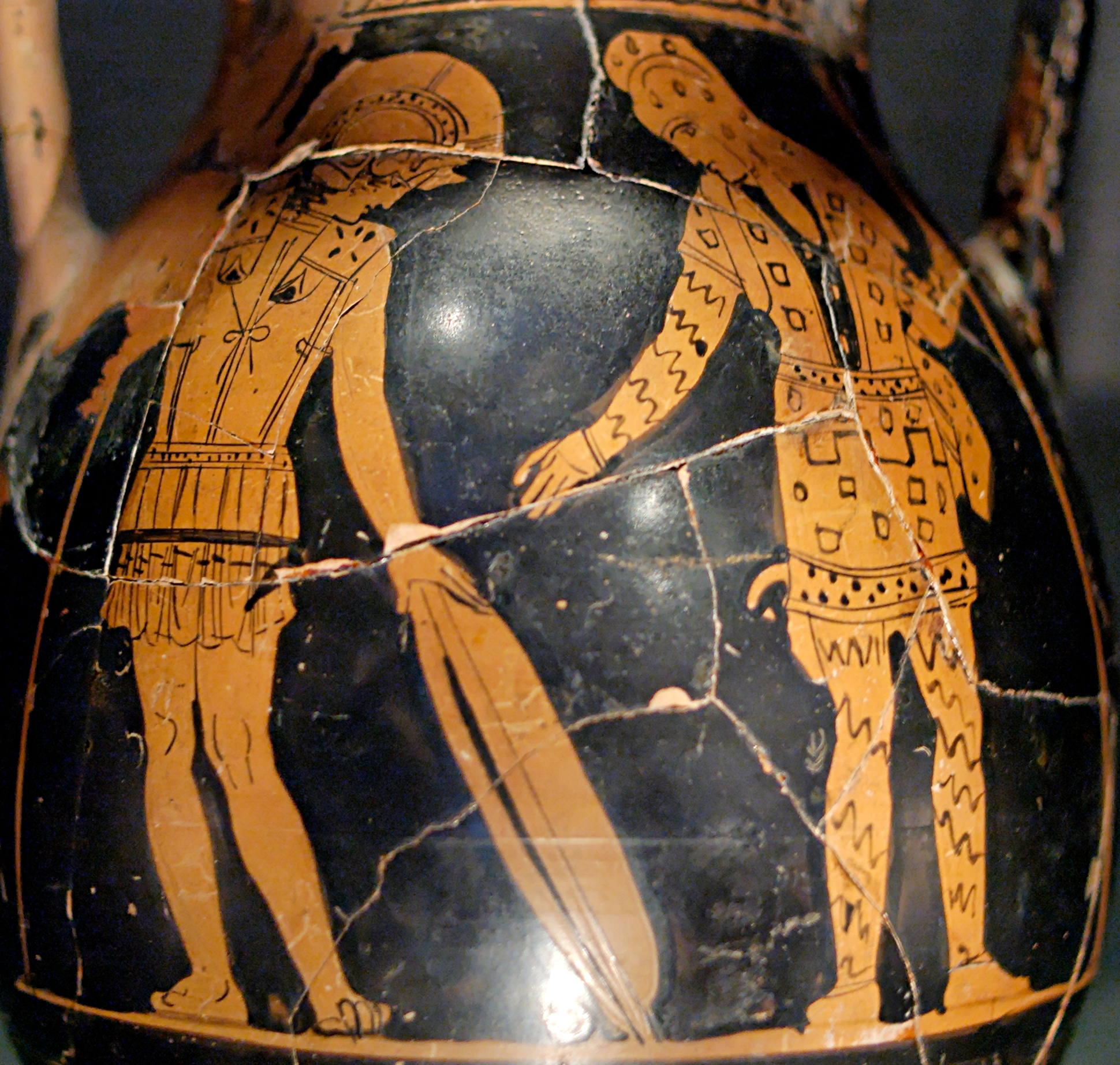 Diomedes (on the left) exchanging weapons with Glaucus, a captain of the Lycian army. Attic red-figure pelike by the Hasselmann Painter, ca. 420 BC. From Gela, Nocera Colletion. Stored in the Museo Regionale Archaeologico in Gela.